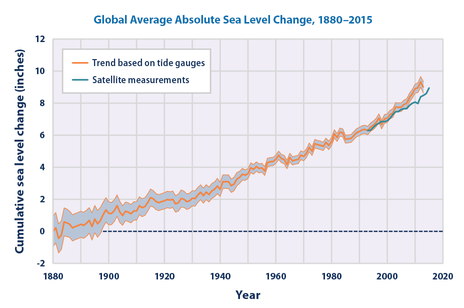 Global Average Absolute Sea Level Change, 1880–2015 This graph shows cumulative changes in sea level for the world’s oceans since 1880, based on a combination of long-term tide gauge measurements and recent satellite measurements. This figure shows average absolute sea level change, which refers to the height of the ocean surface, regardless of whether nearby land is rising or falling. Satellite data are based solely on measured sea level, while the long-term tide gauge data include a small correction factor because the size and shape of the oceans are changing slowly over time. (On average, the ocean floor has been gradually sinking since the last Ice Age peak, 20,000 years ago.) The shaded band shows the likely range of values, based on the number of measurements collected and the precision of the methods used. Data sources... CSIRO 2015 update to data originally published in: Church, J.A., and N.J. White (2011) "Sea-level rise from the late 19th to the early 21st century". Surv. Geophys., 32: 585–602. NOAA Laboratory for Satellite Altimetry (2016) Global sea level time series. Accessed: June 2016.